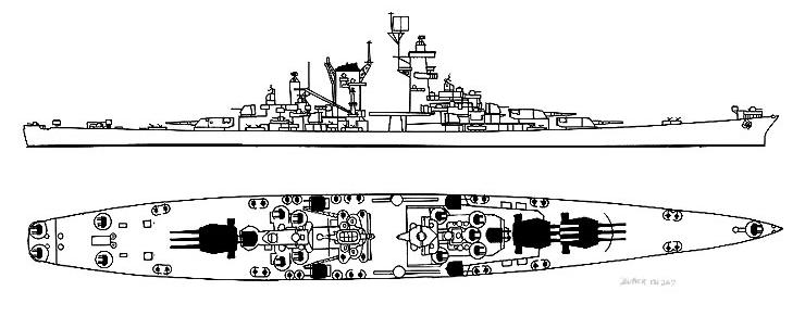 Recognition drawing for the Alaska class, prepared circa 1945.